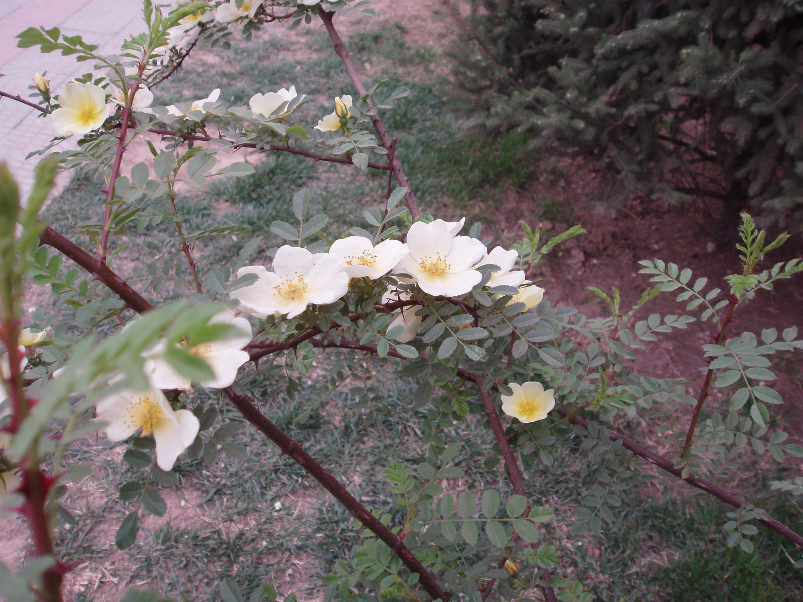 Canary bird flowers